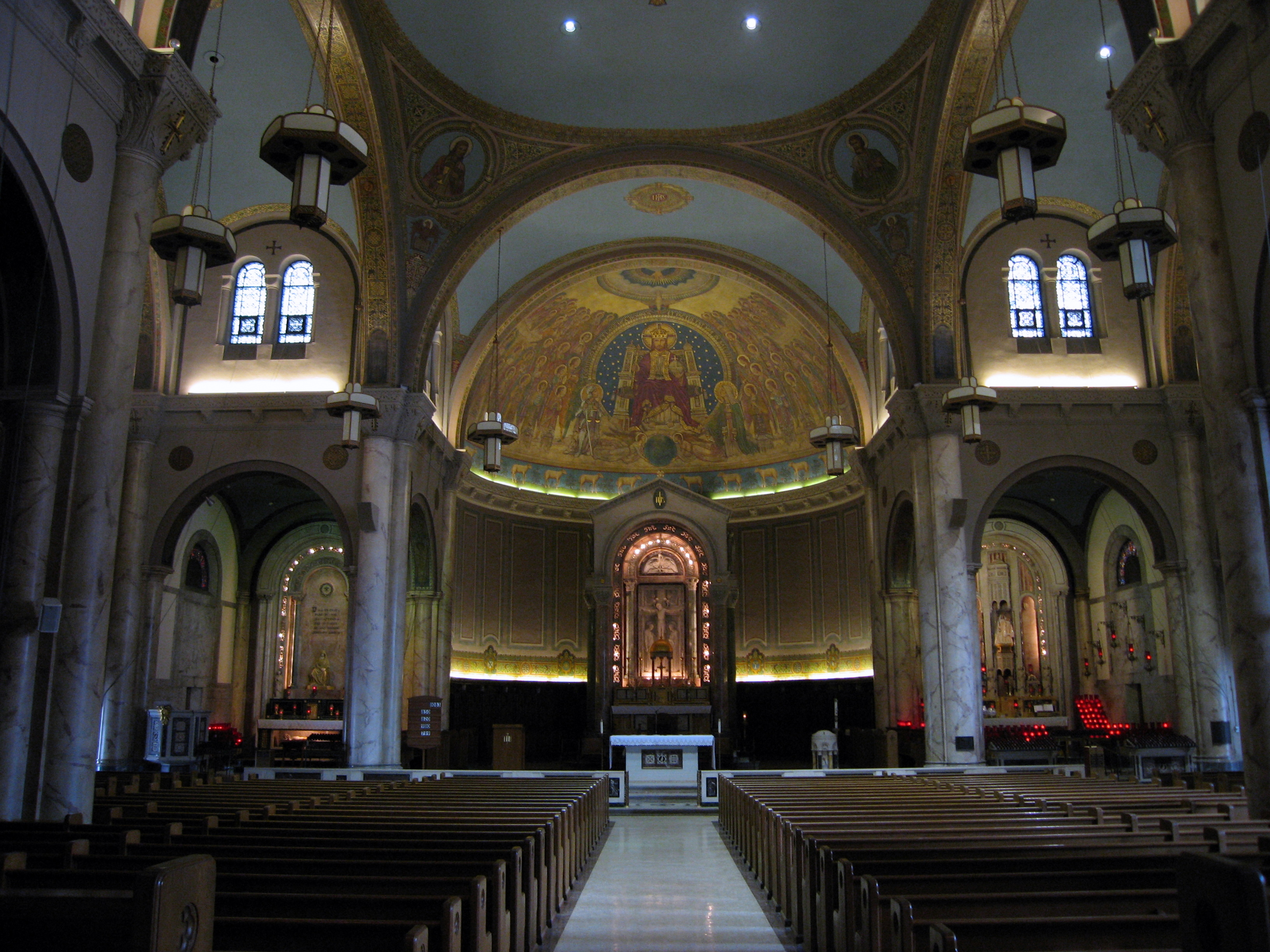 Basilica and National Shrine of Our Lady of Consolation in Carey, Ohio - view from the back pew